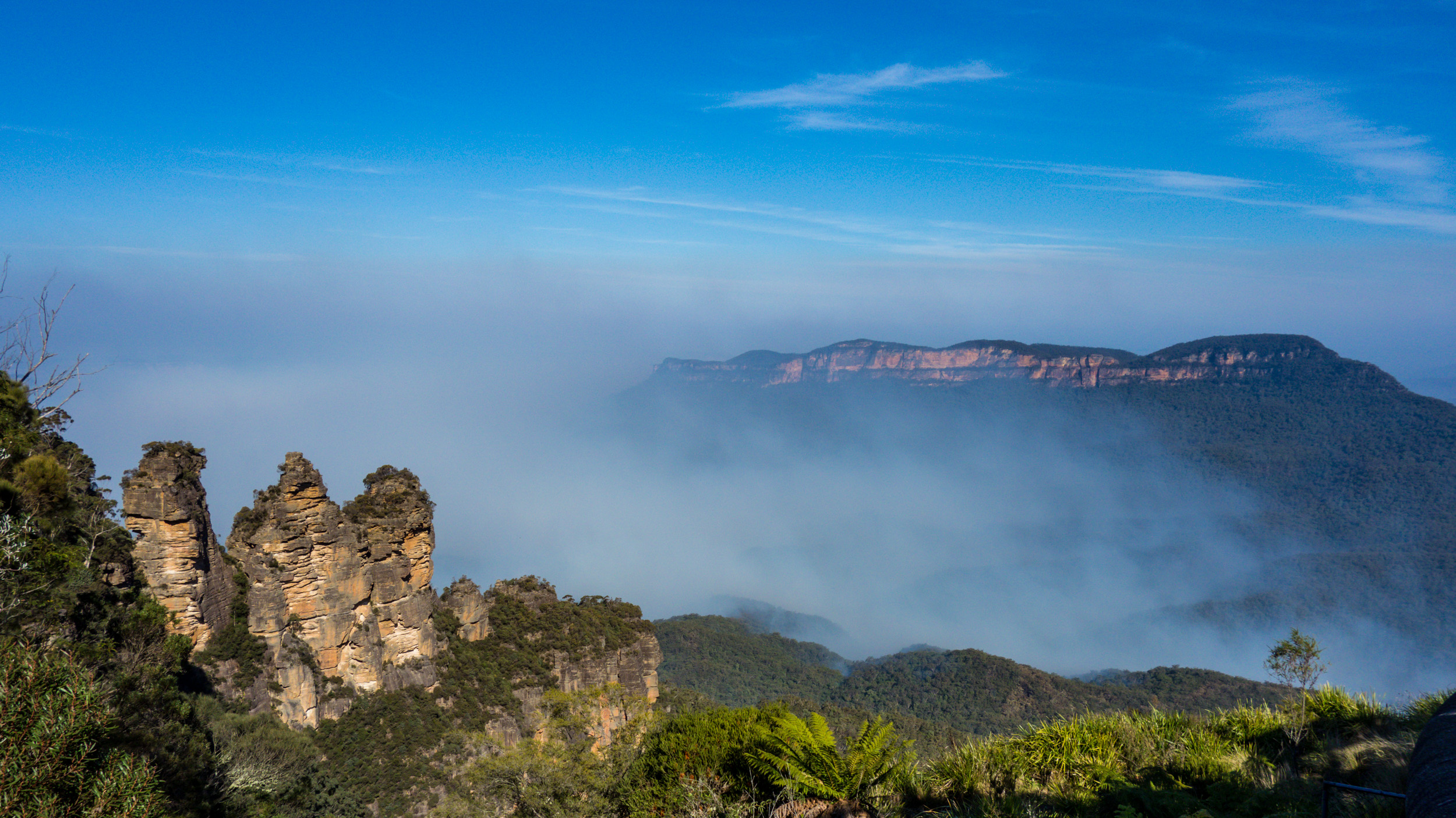 Australia - Part 3